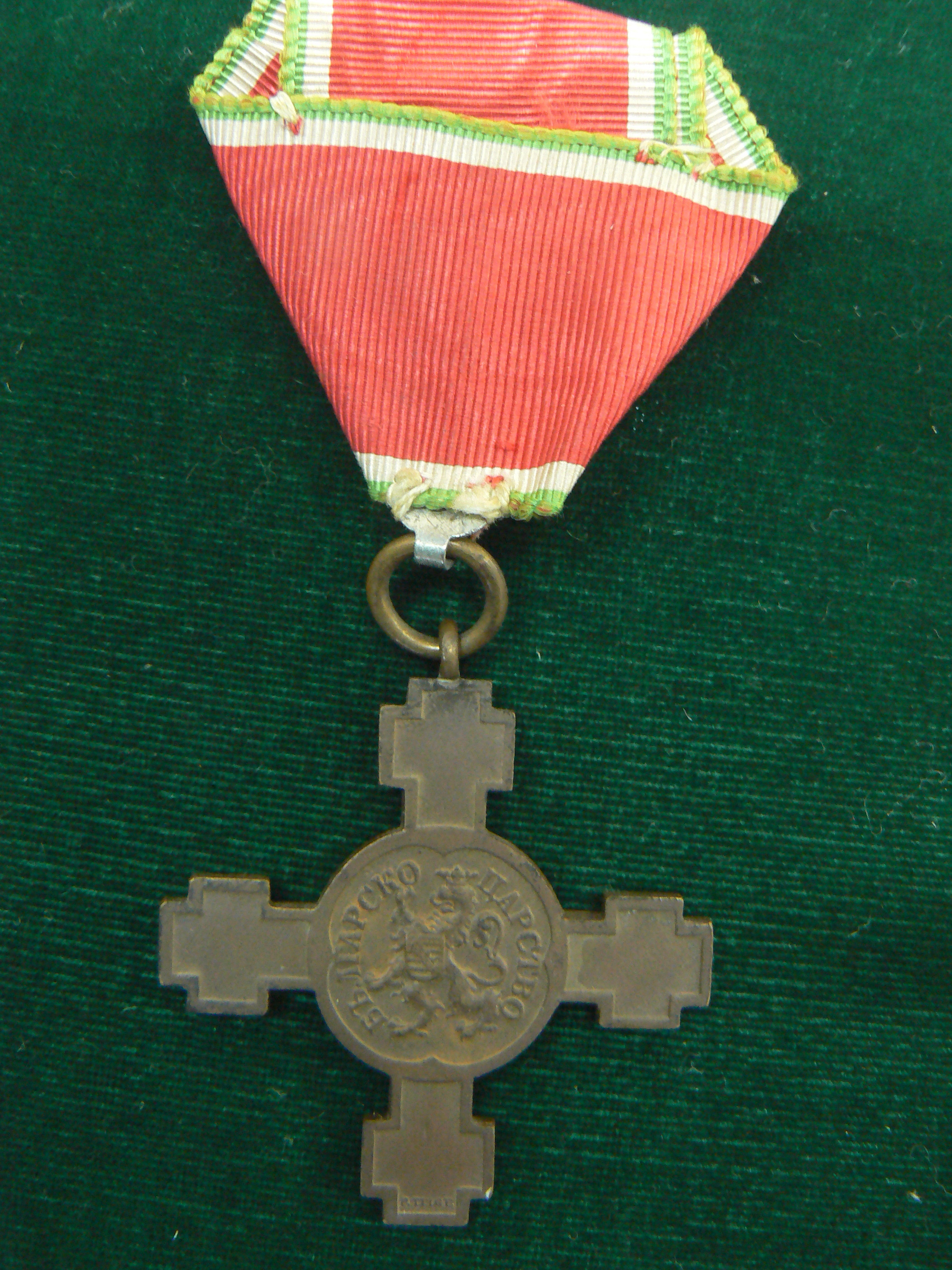 Bulgarian Commemorative Cross of the Independence of Bulgaria 1909 - back. Exhibit of the Regional History Museum - Vratsa